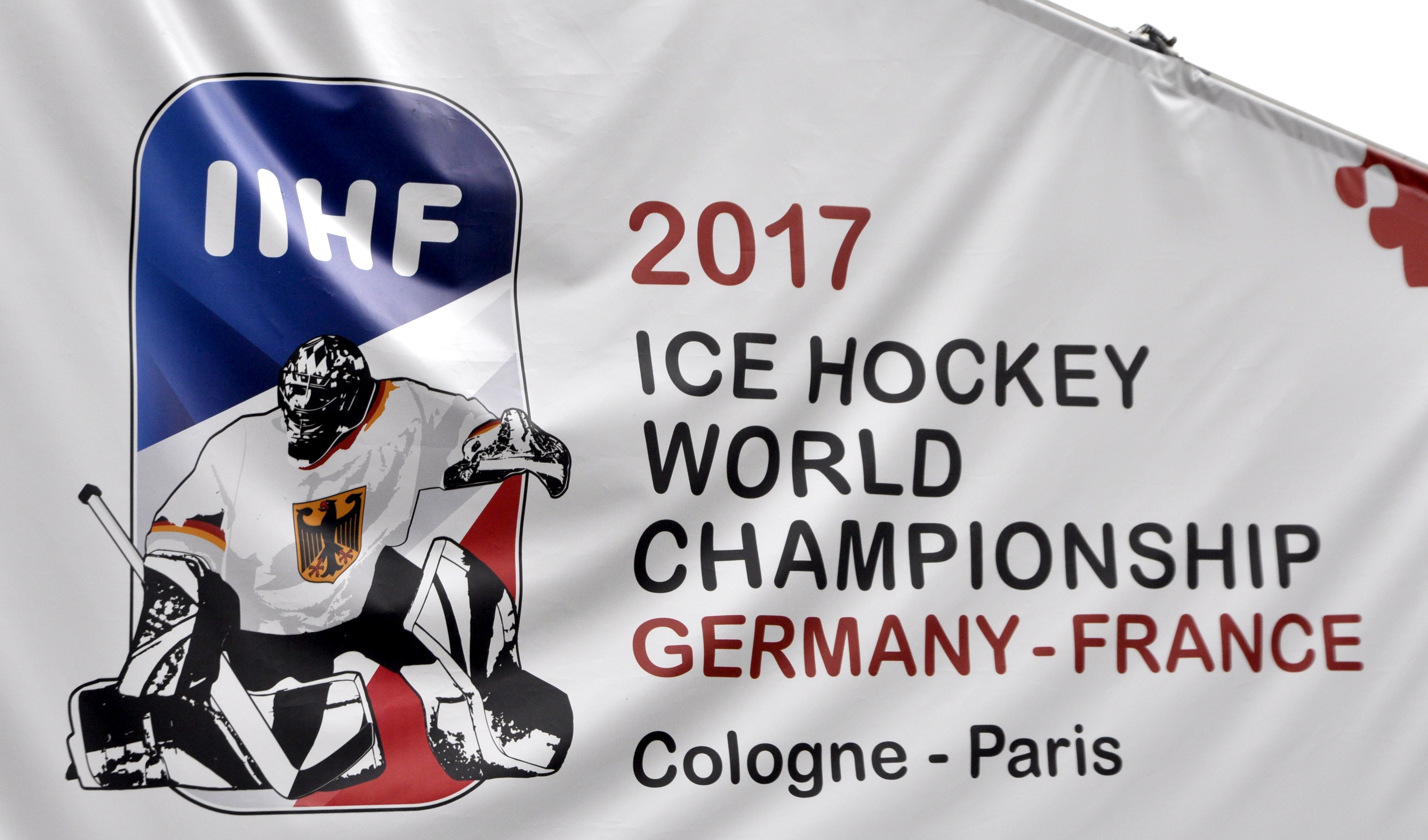 Ice hockey World Championship 2017 in Cologne 19.5 - 22.5.2017 Foto Mats Adamczak